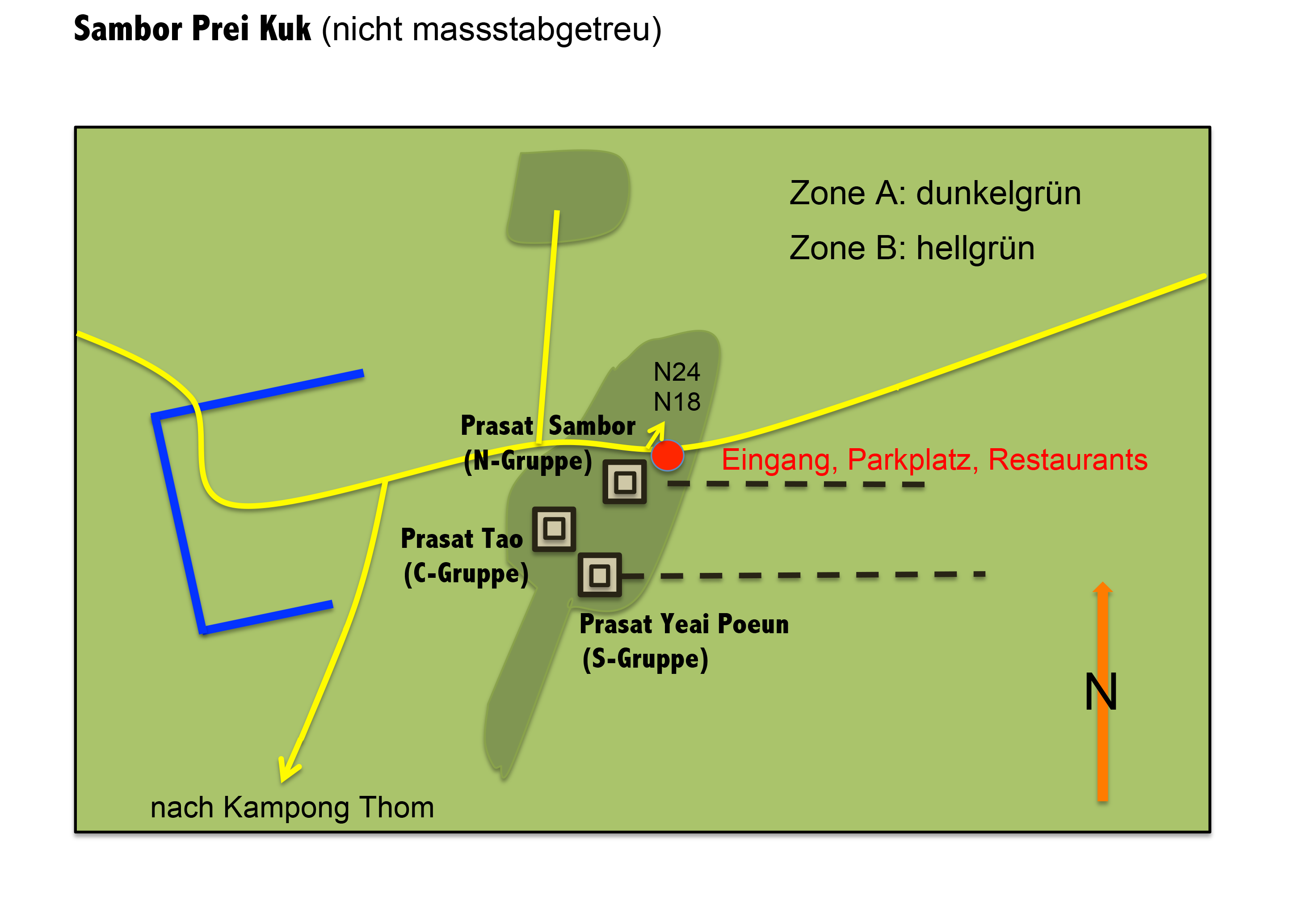 Map of the temple area of Sambor Prei Kuk